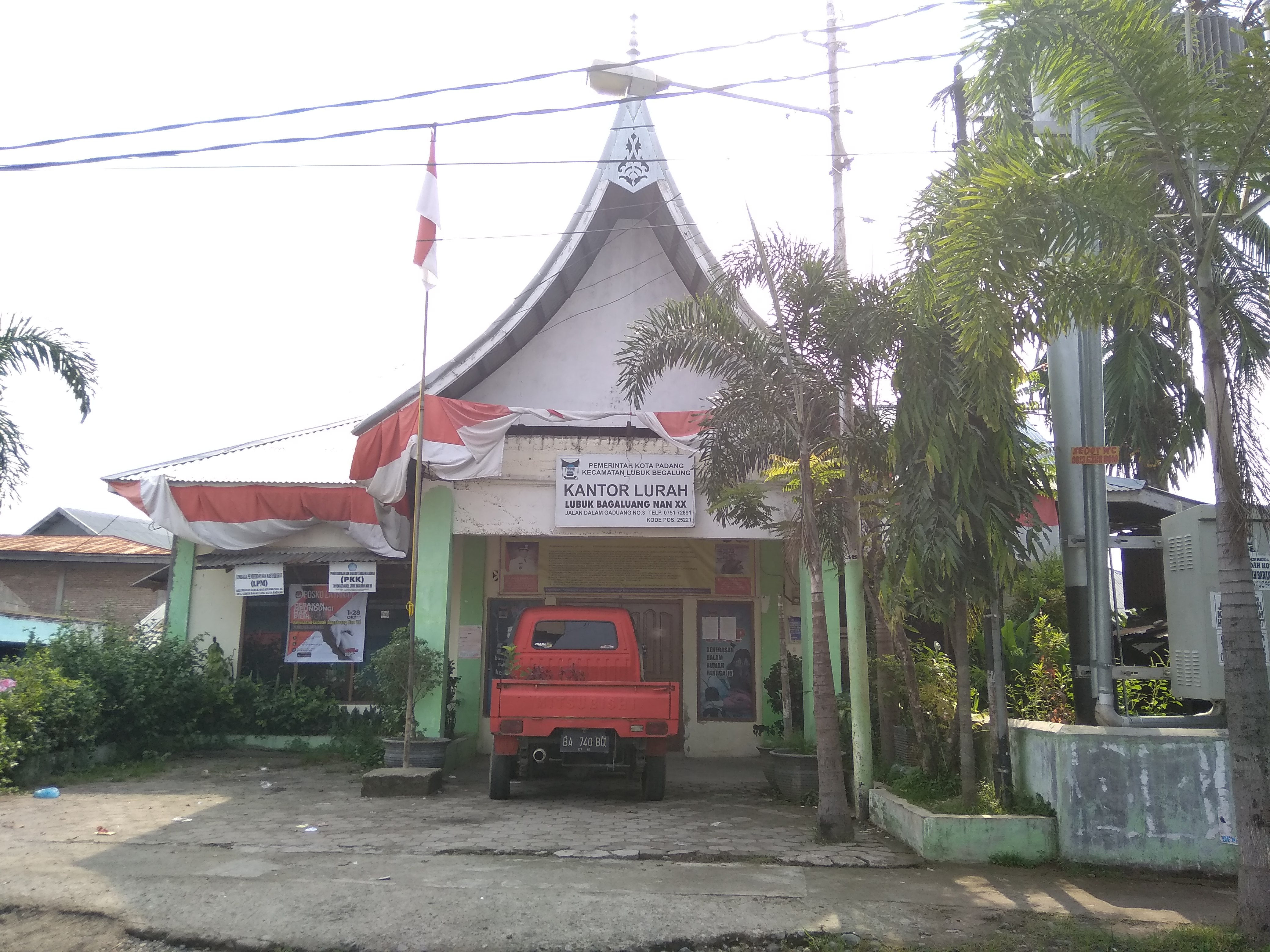 Office of Lubuk Begalung headmen in Padang city, West Sumatra.